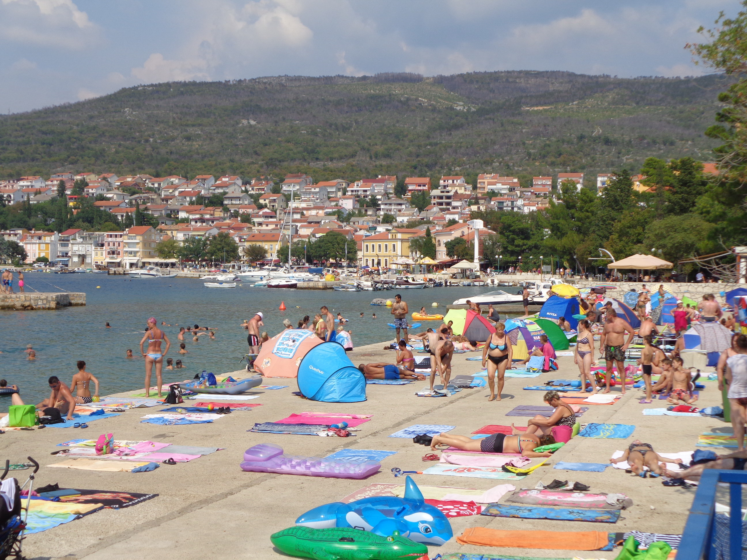 Selce, Primorje-Gorski Kotar County, Croatia - beach in central SelceHrvatski: Selce, Primorsko-goranska županija, Hrvatska - plaža u središtu Selca